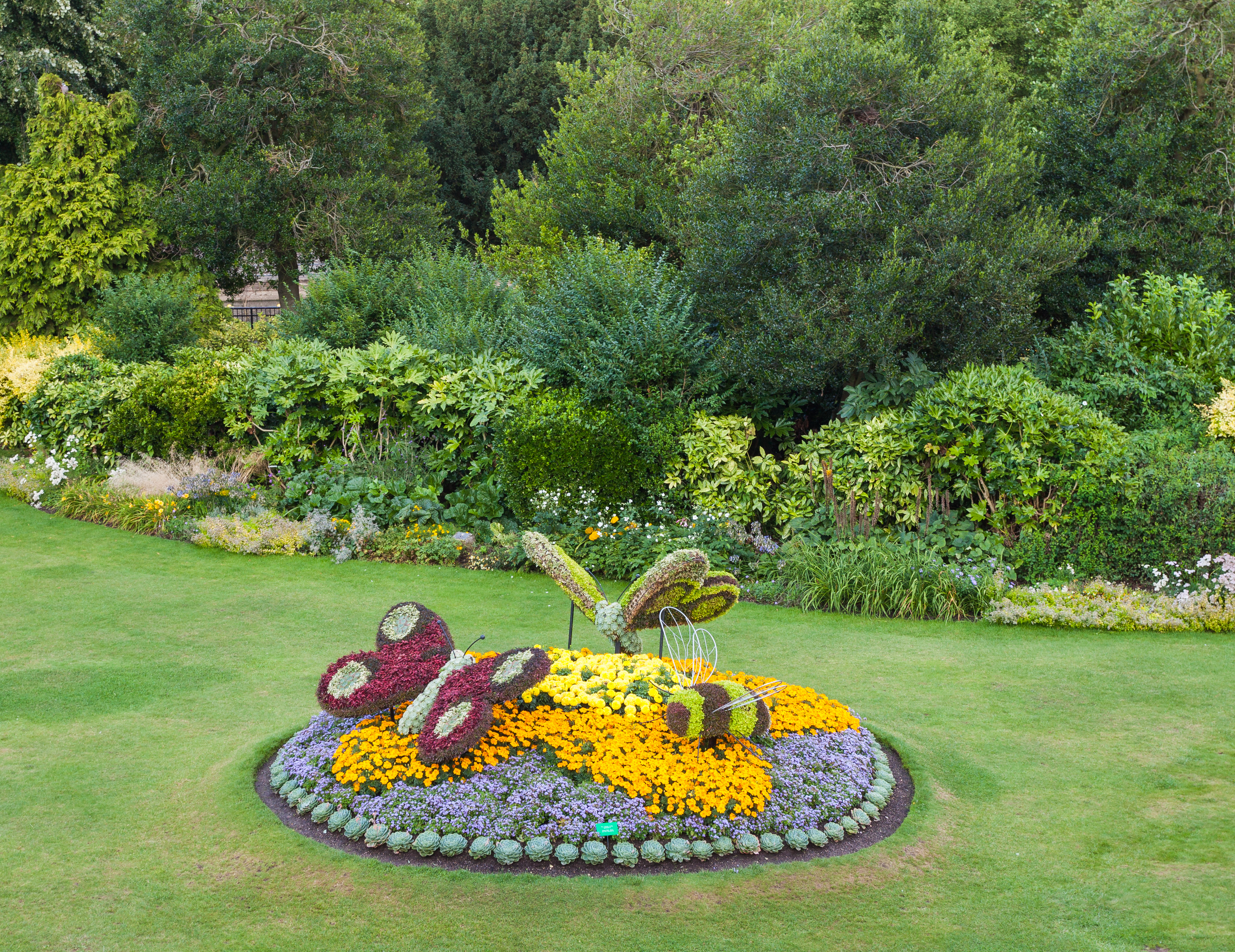 Parade Gardens, Bath, England